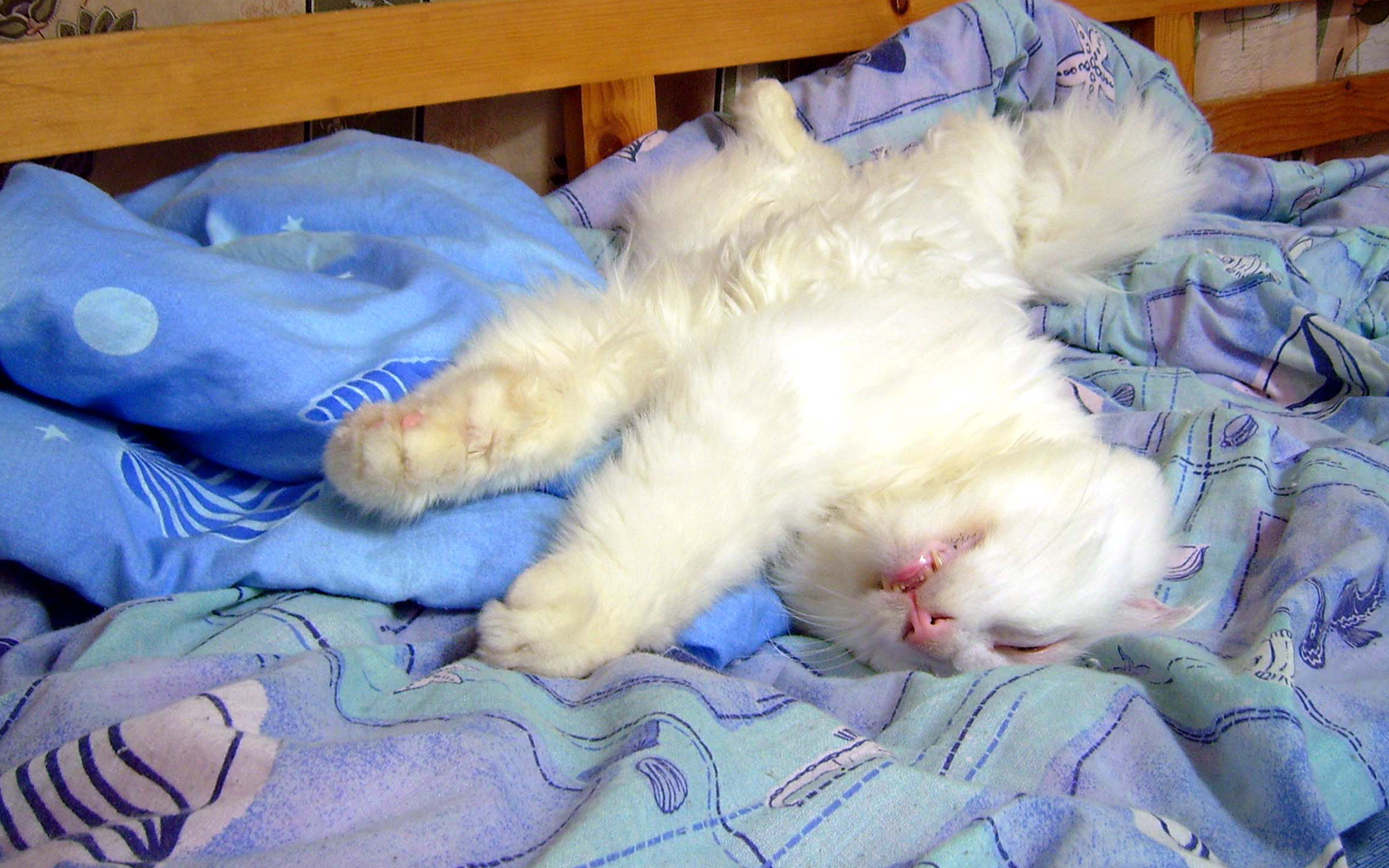 linchin down side up